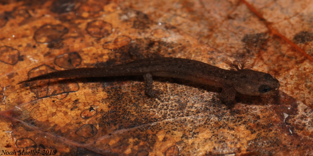 This larval animal was found in northern Florida.